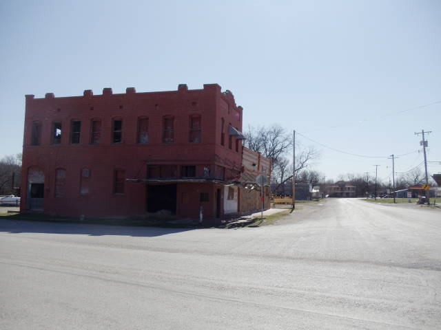 Mingus, Texas